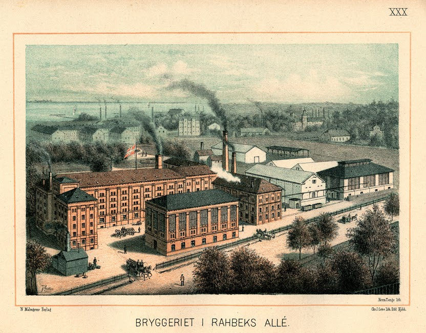 The brewery at Rabæks Allé in Copenhagen, Denmark